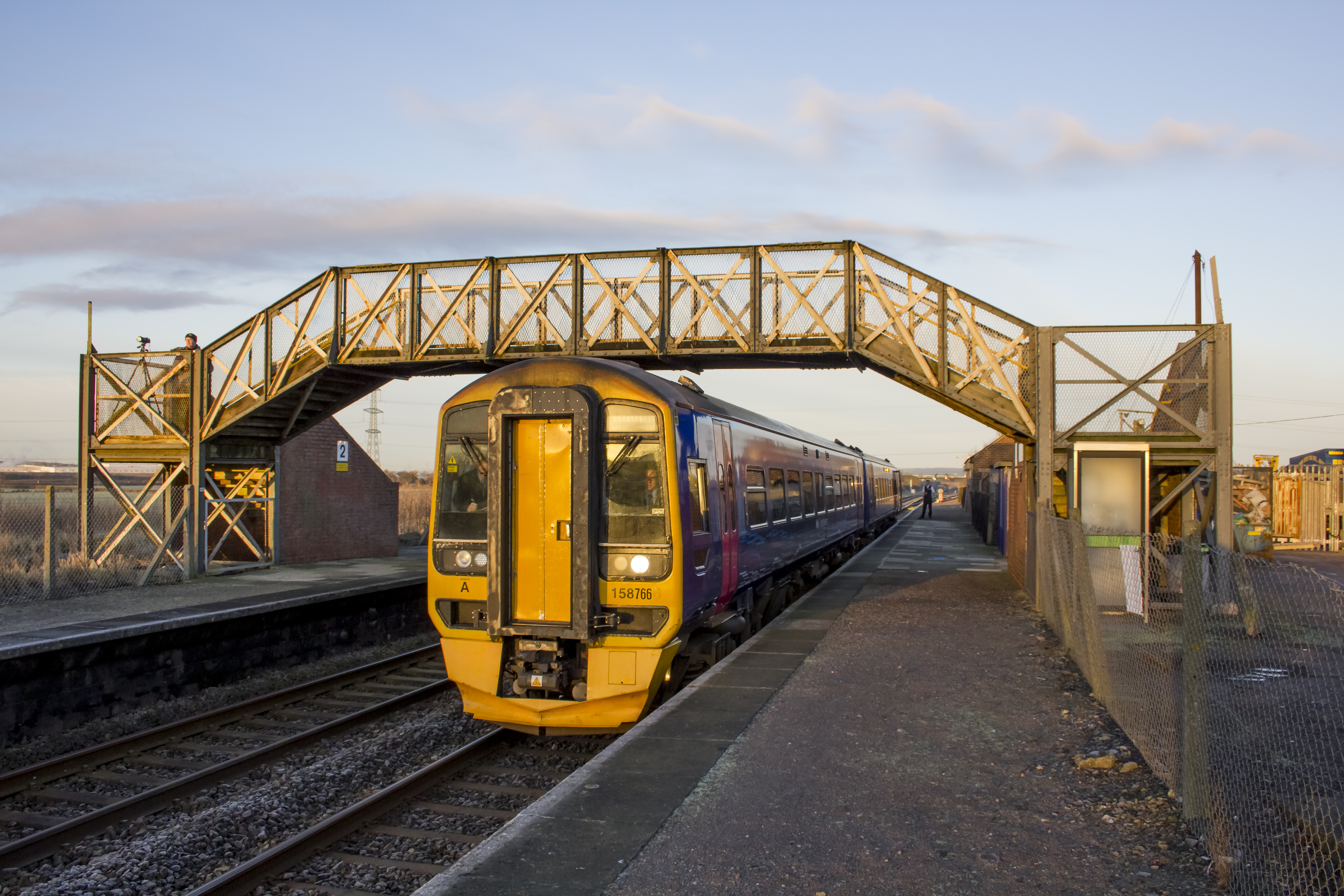 Great Western Railway Class 158 diesel multiple unit (DMU) 158 756 stands at Pilning station with the 2C67 0755 Cardiff Central to Taunton service on Saturday 16th January 2016. Pilning station – which lies just to the east of the Severn Tunnel has just one service in each direction each week (both on Saturdays). In the UK there are a number of sections of railway line or stations where the service has been reduced to the bare legal minimum (normally one train in each direction), hence the name ‘parliamentary train’. Pilning is an example of the latter where the railway line itself is intensively used, but the station only receives the minimum service of a weekly train call in each direction. Having just alighted from the train at Pilning I just about had enough time to get a photo of the train before it departed for its next stop of Patchway. In 2015 Pilning was the sixth least used station in the UK (based on its total estimated 68 passenger entries and exits).